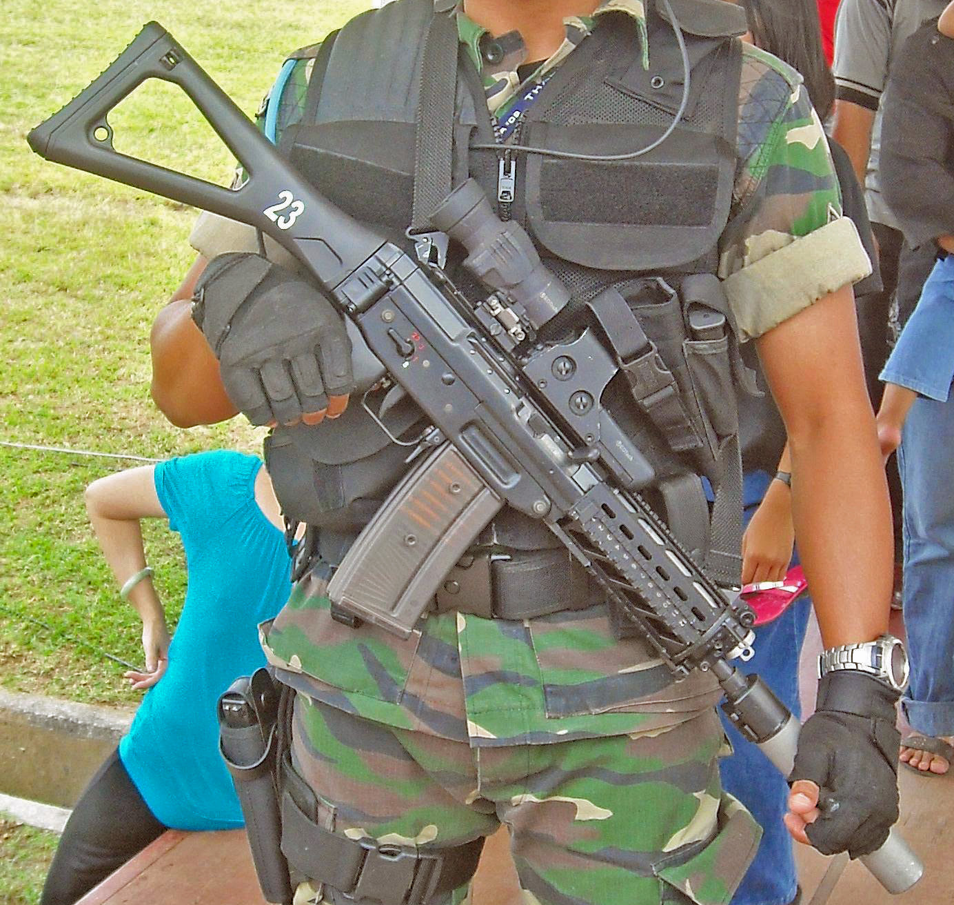 The Force Protection Team officer of PASKAU standing at the exit door during the Langkawi International Maritime and Aerospace Exhibition 2009 or LIMA 2009 at Langkawi Airport. He holding the SIG SG 553LB assault rifle and equipped with EOTech holographic sight and Brügger & Thomet suppressor. Taken by me at Langkawi Airport, Langkawi, Kedah, Malaysia.